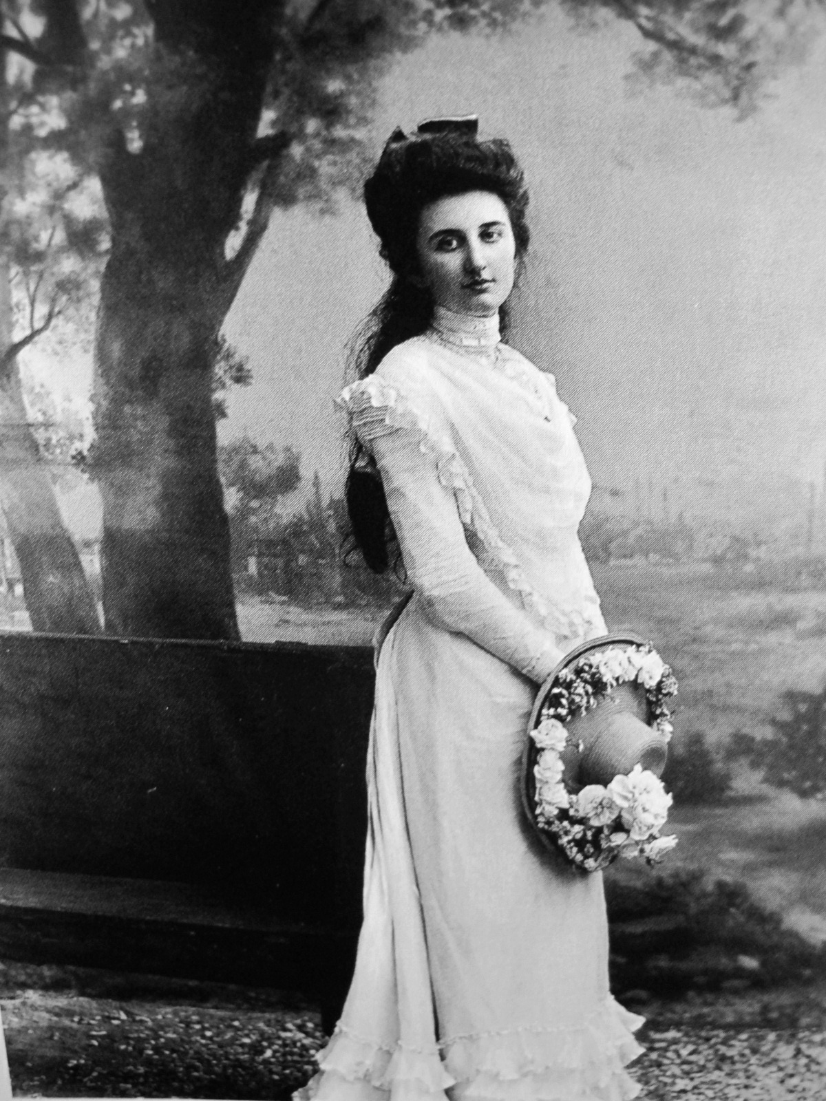 Portrait of Elaine Greffulhe